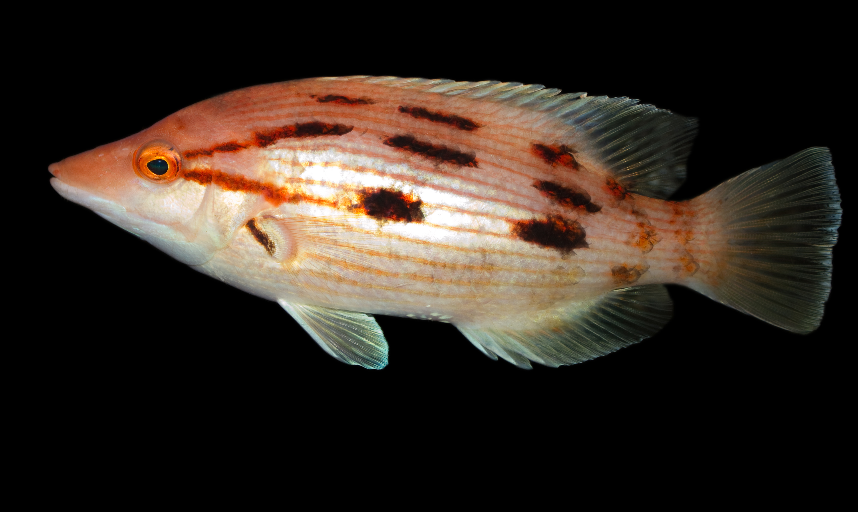 Bodianus unimaculatus, New Zealand